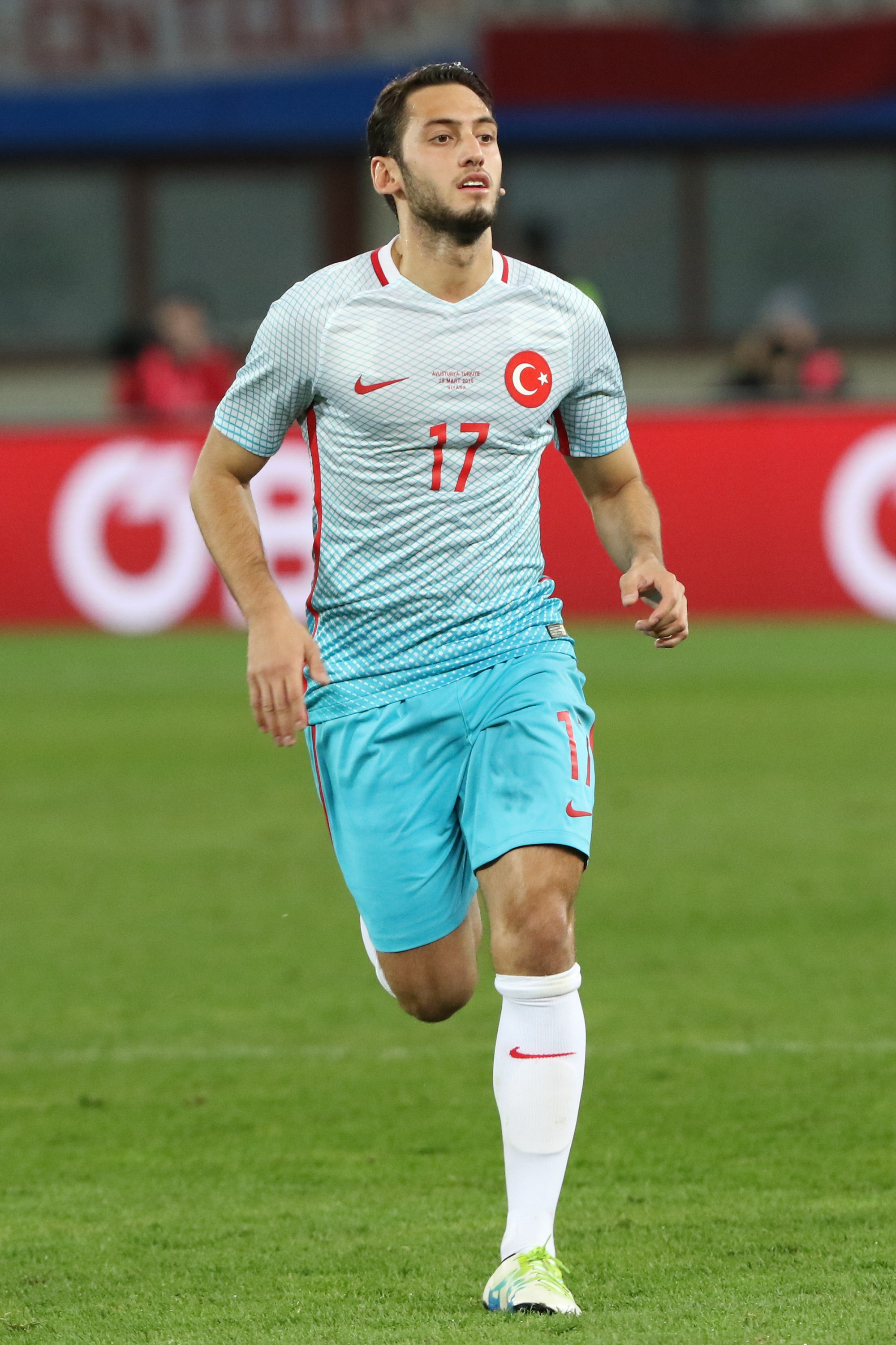 Friendly match – Austria (red shirts) vs. Turkey (blue shirts) 1–2 (1–1) on 2016-03-29 in Ernst-Happel-Stadion, Vienna – The photo shows Hakan Çalhanoğlu (Bayer Leverkusen).